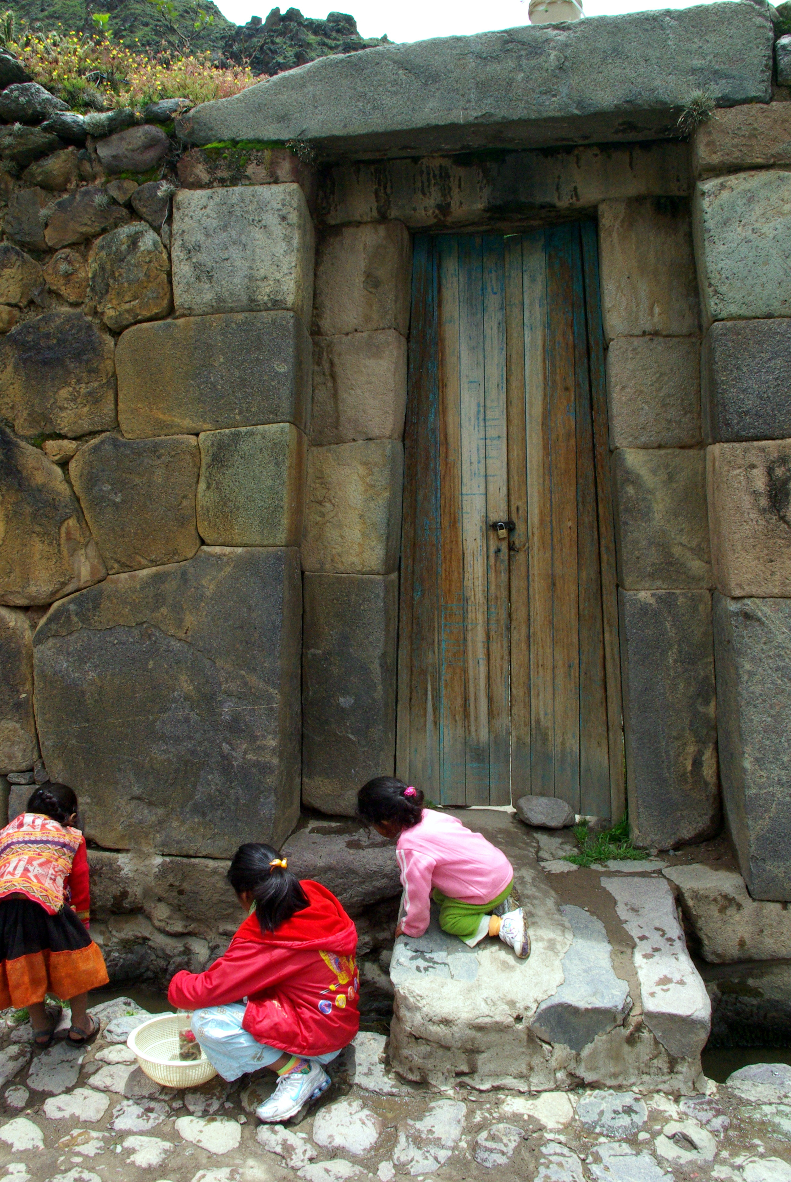 An inca doorway in Ollantaytambo, part of a house still used by people. Note the single stone lintil - apparently a sign of importance. I think the children were looking for fish in the gutter.